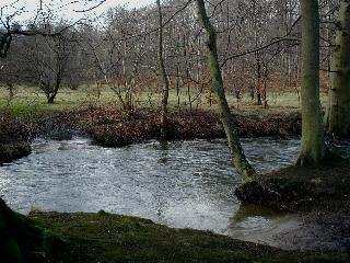 River (Giber Å) in Denmark in February